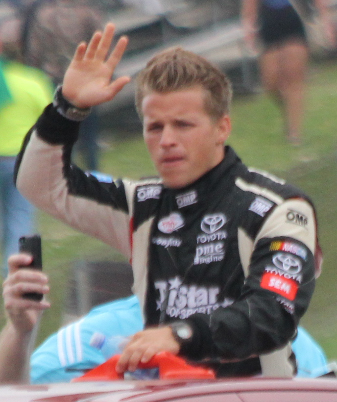 NASCAR driver Cale Conley waves to the crowd during drivers introduction at the Xfinity Series race at Road America.